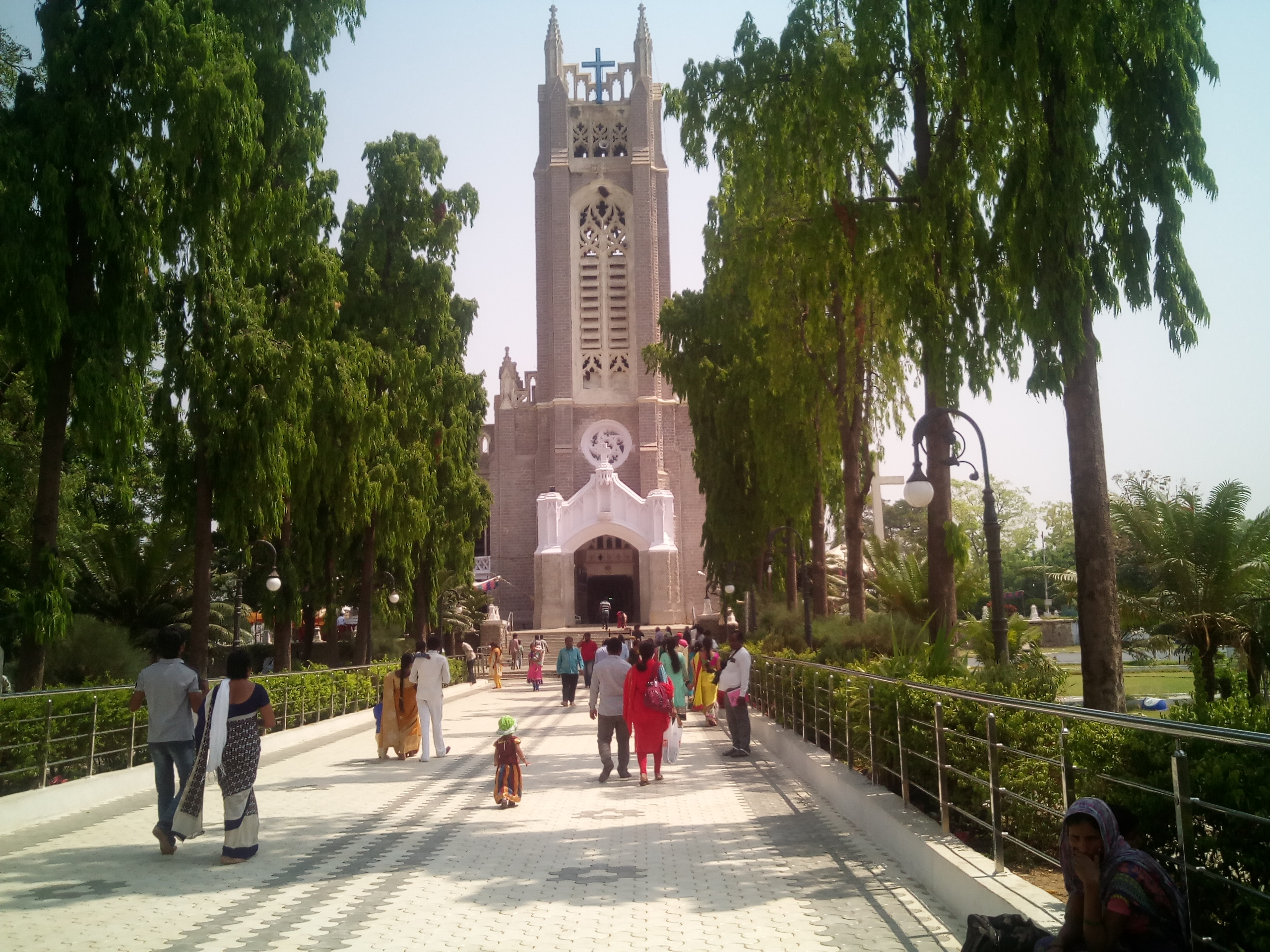 this is the famous medak church with a great architecture inside and outside .